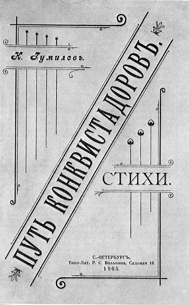 Cover of The Way of Conquistadors by Nikolay Gumilev (1905)